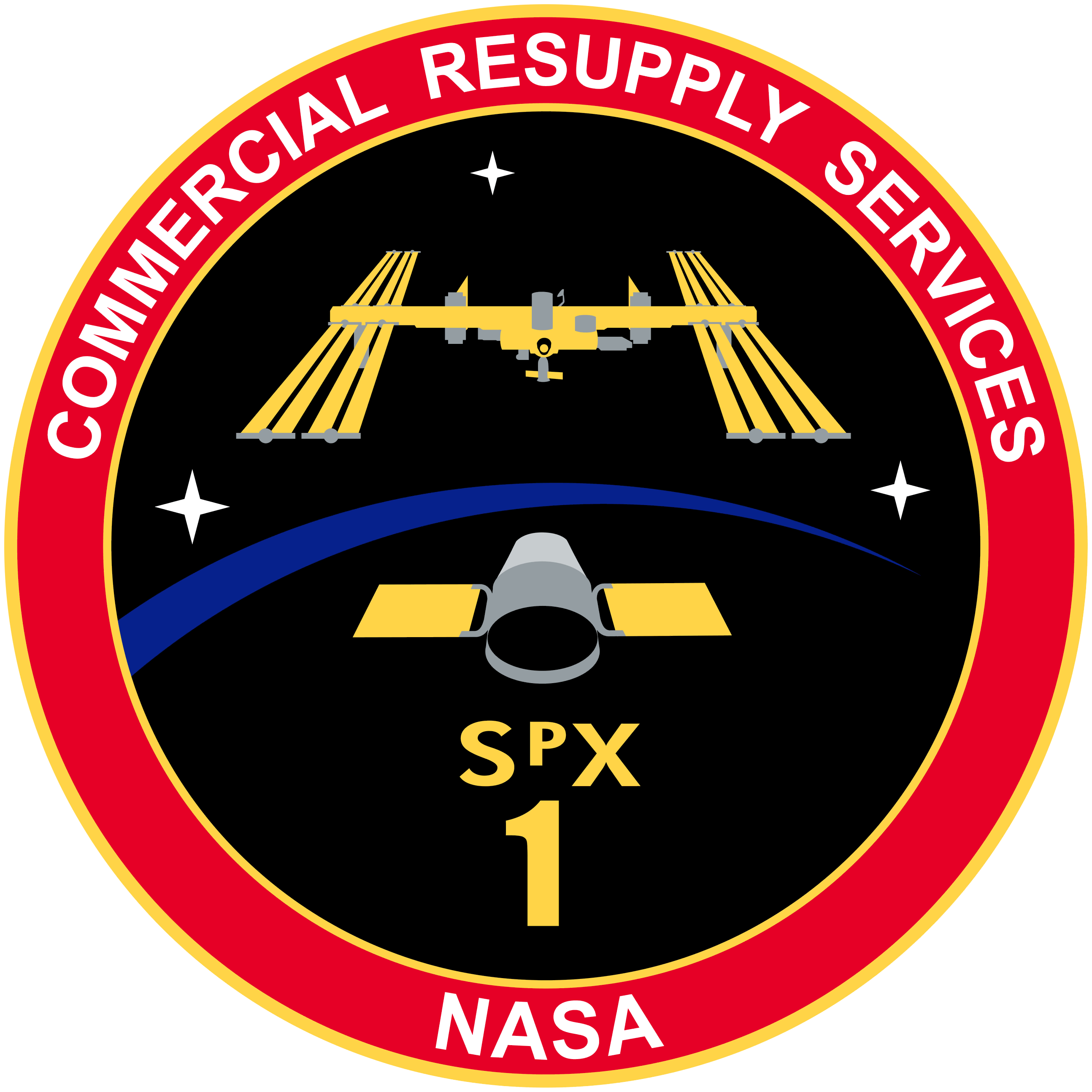 NASA's insignia for SpaceX's Commercial Resupply Services-1 (CRS-3) mission to the International Space Station (SpX-1)